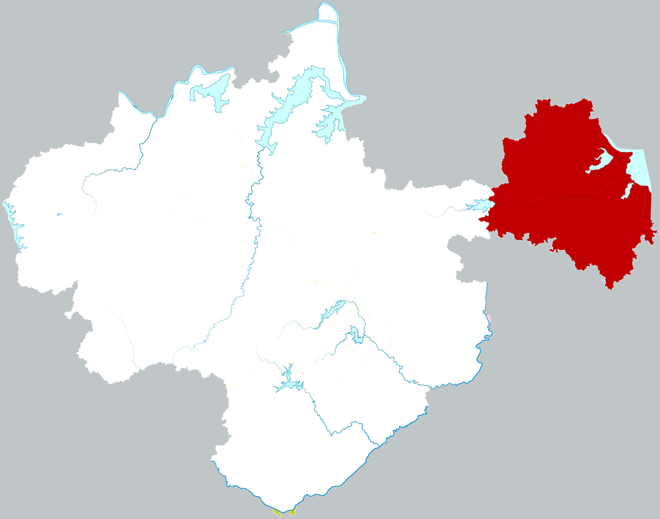 Location of Tianchang county-level city in Chuzhou city, China